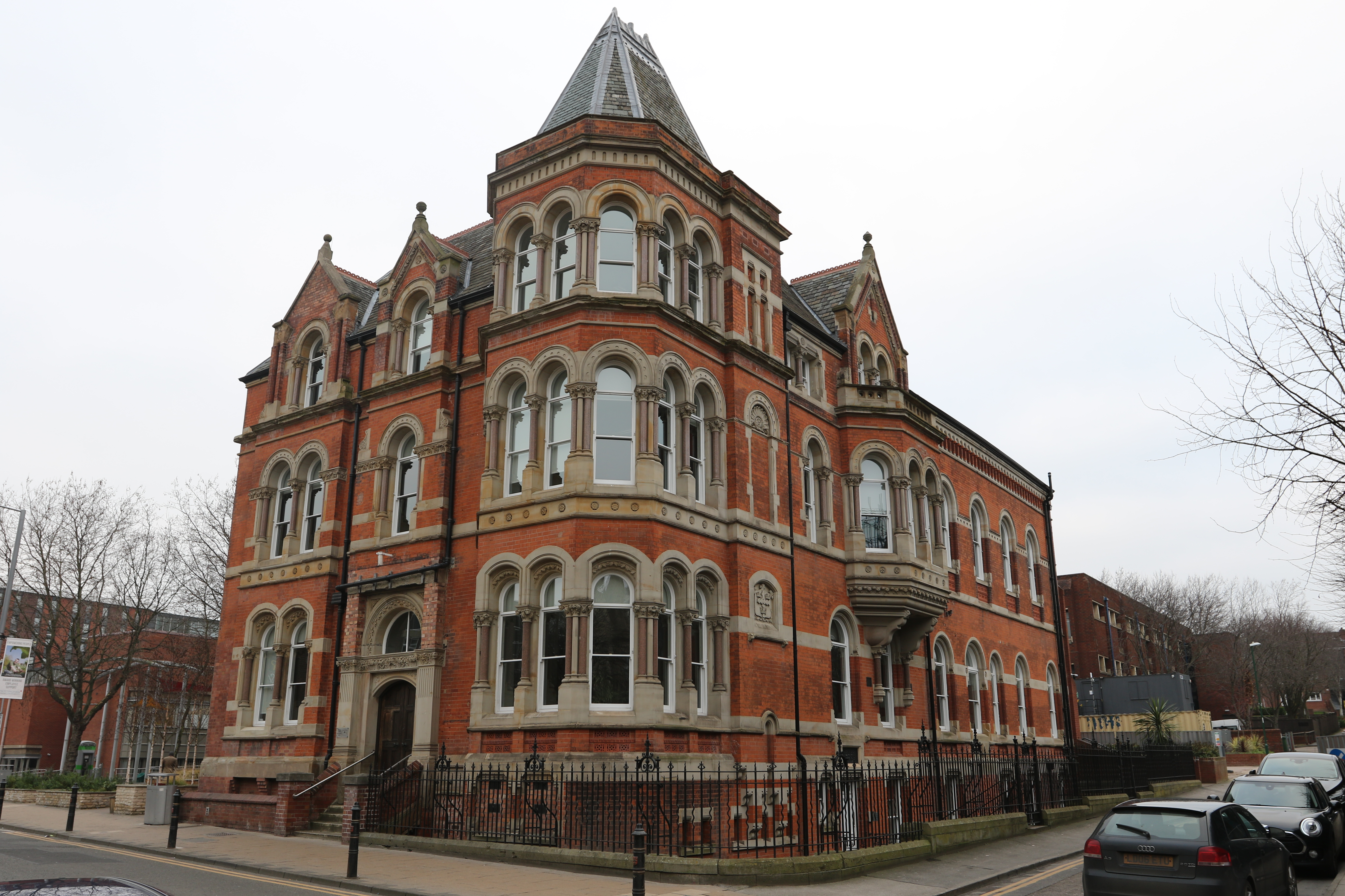 Built as the Poor Law Offices by Abraham Harrison Goodall 1885-86. On Shakespeare Street, Nottingham